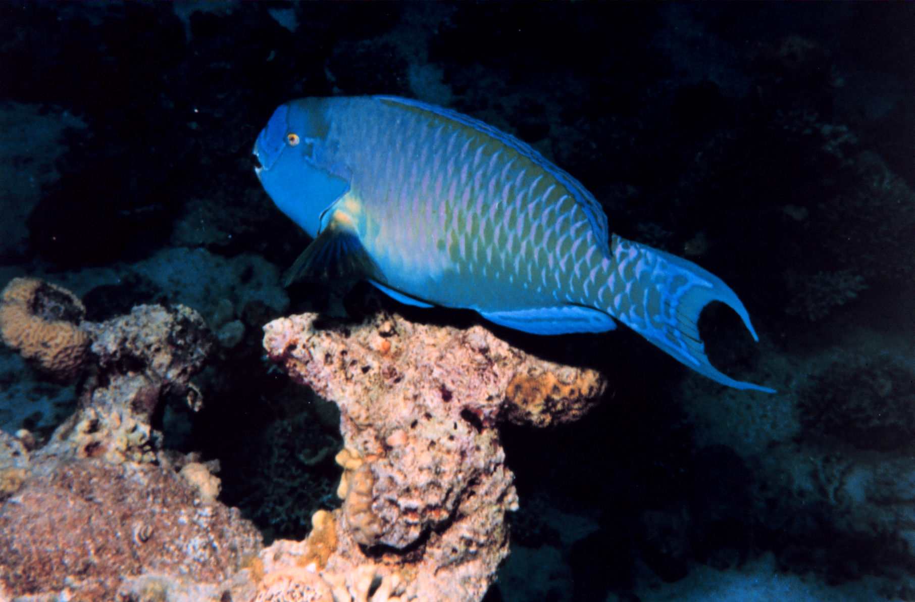 Chlorurus gibbus in the Gulf of Aqaba, Red Sea